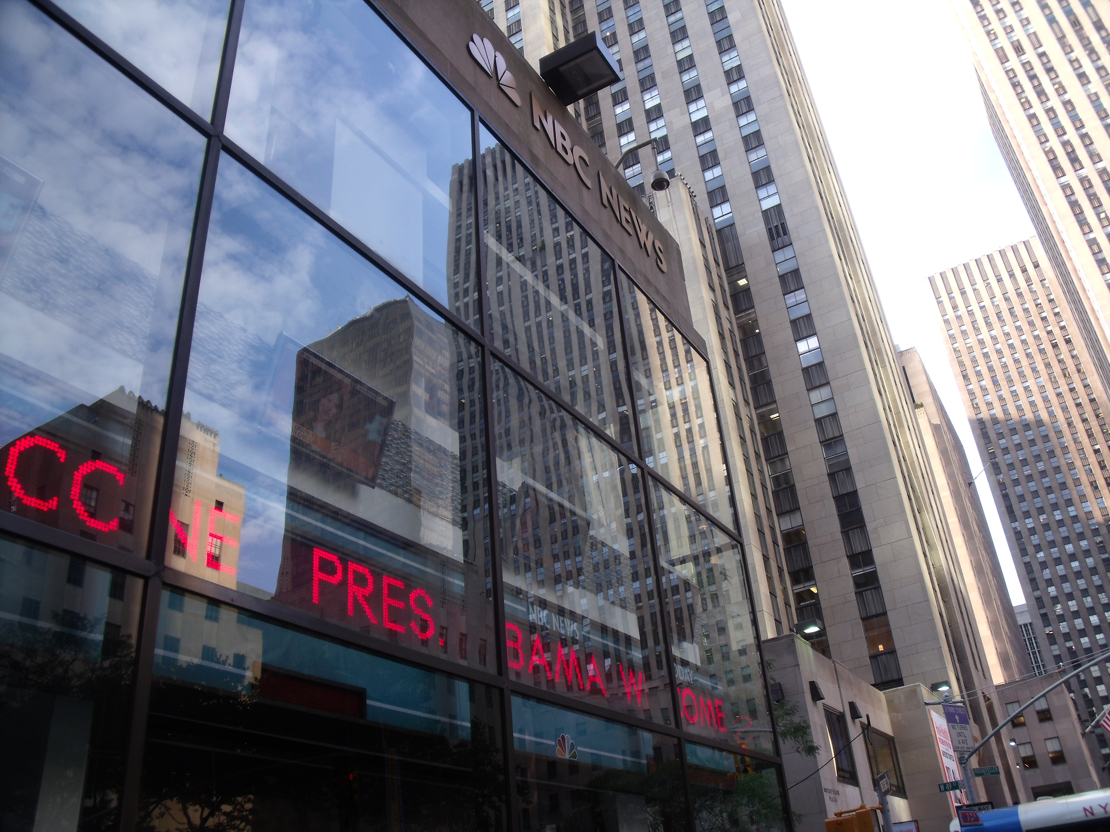 NBC News